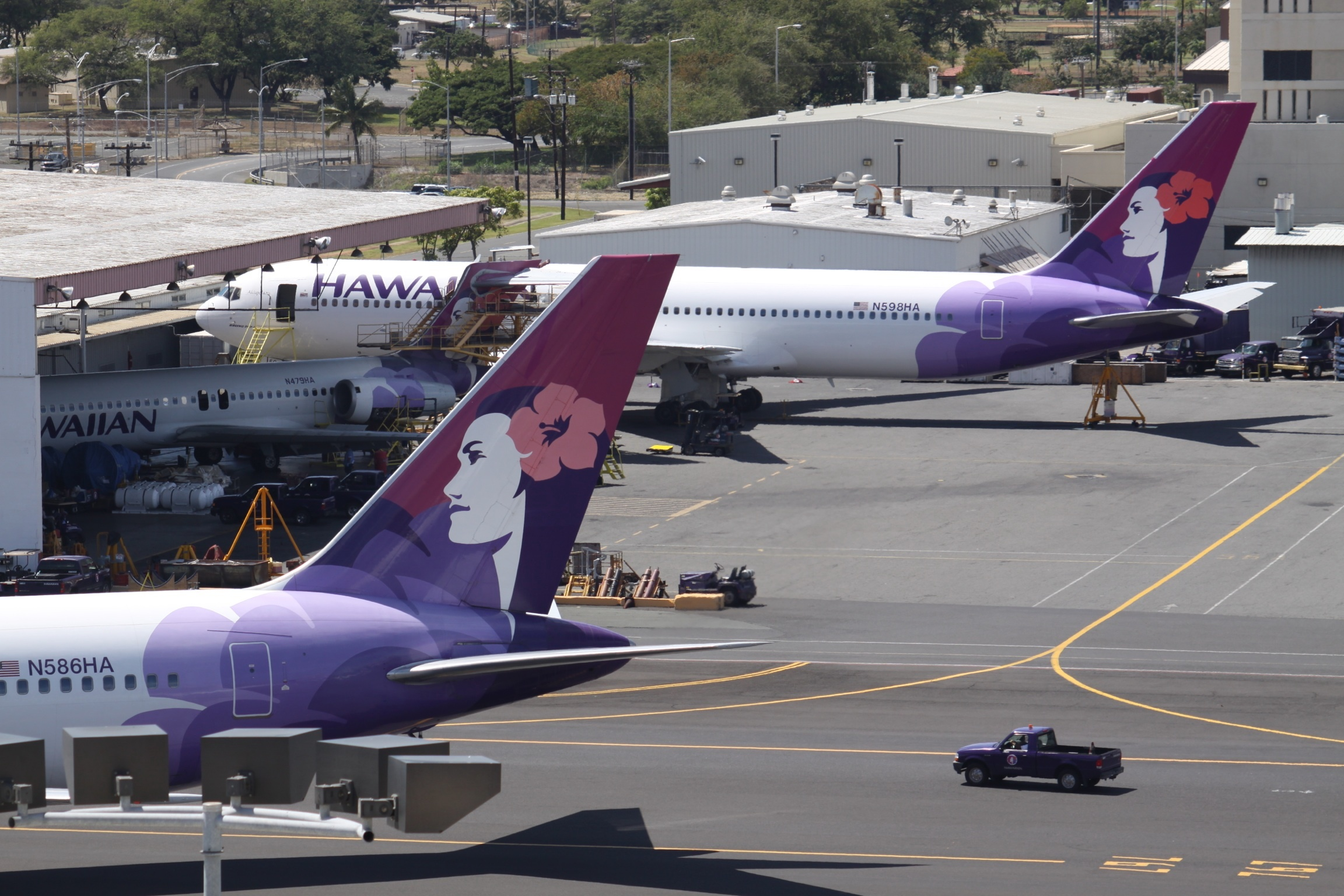 At Honolulu International